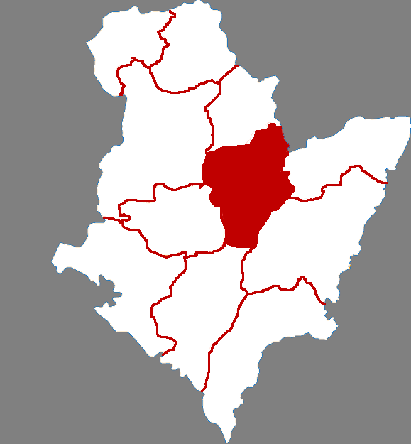 Location of Wuyi county in Hengshui City, China